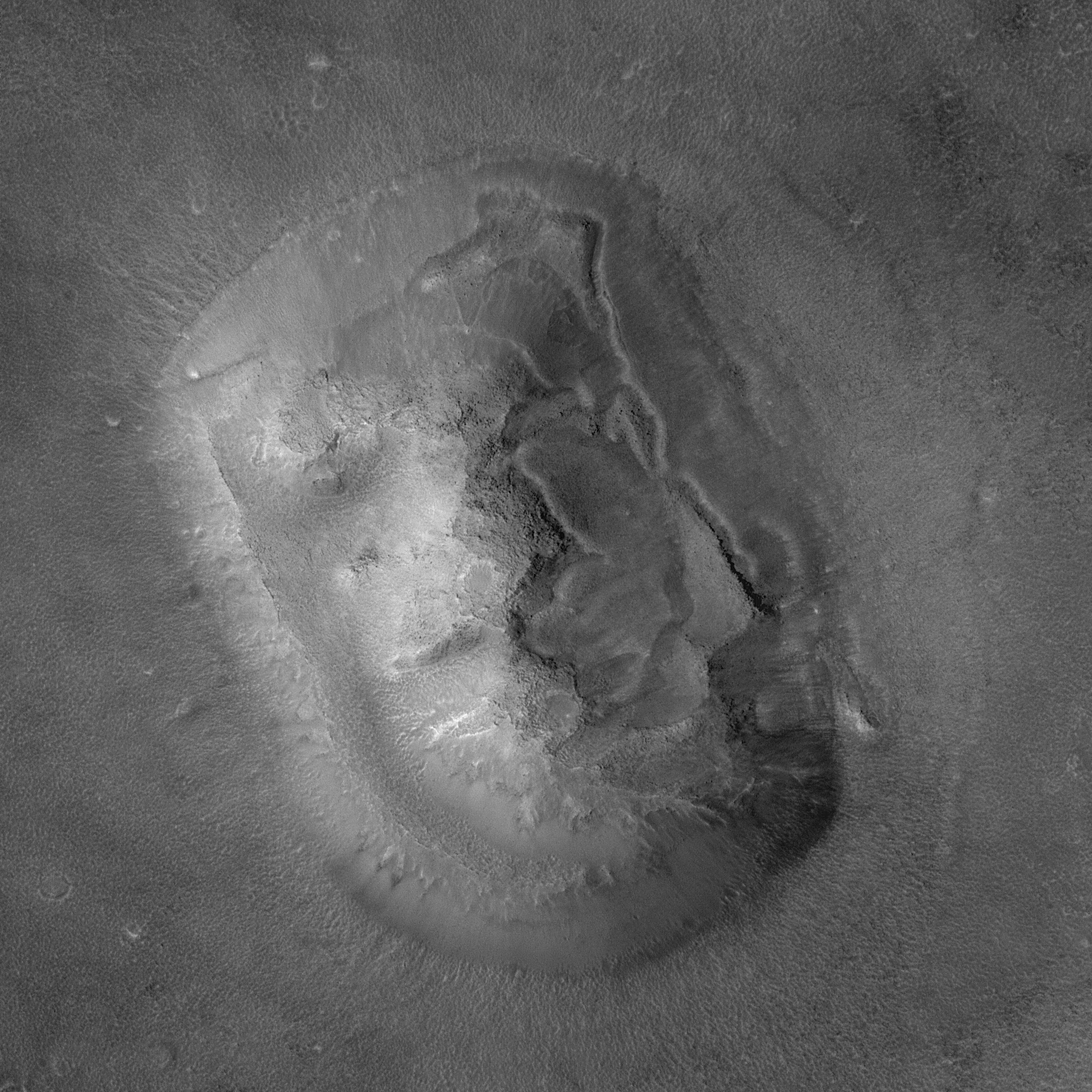 Highest-resolution view of the "Face on Mars", photographed by Mars Global Surveyor